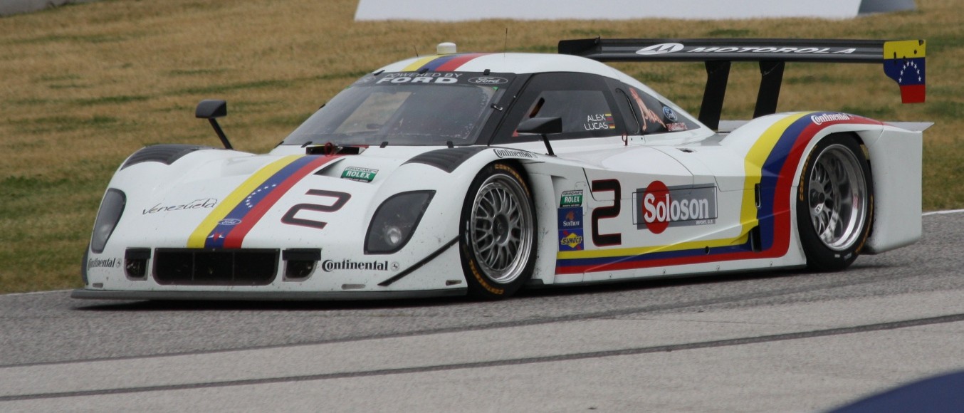 The Starworks Motorsport Daytona Prototype driven by Lucas Luhr and Alex Popow at a 2012 race at Road America.